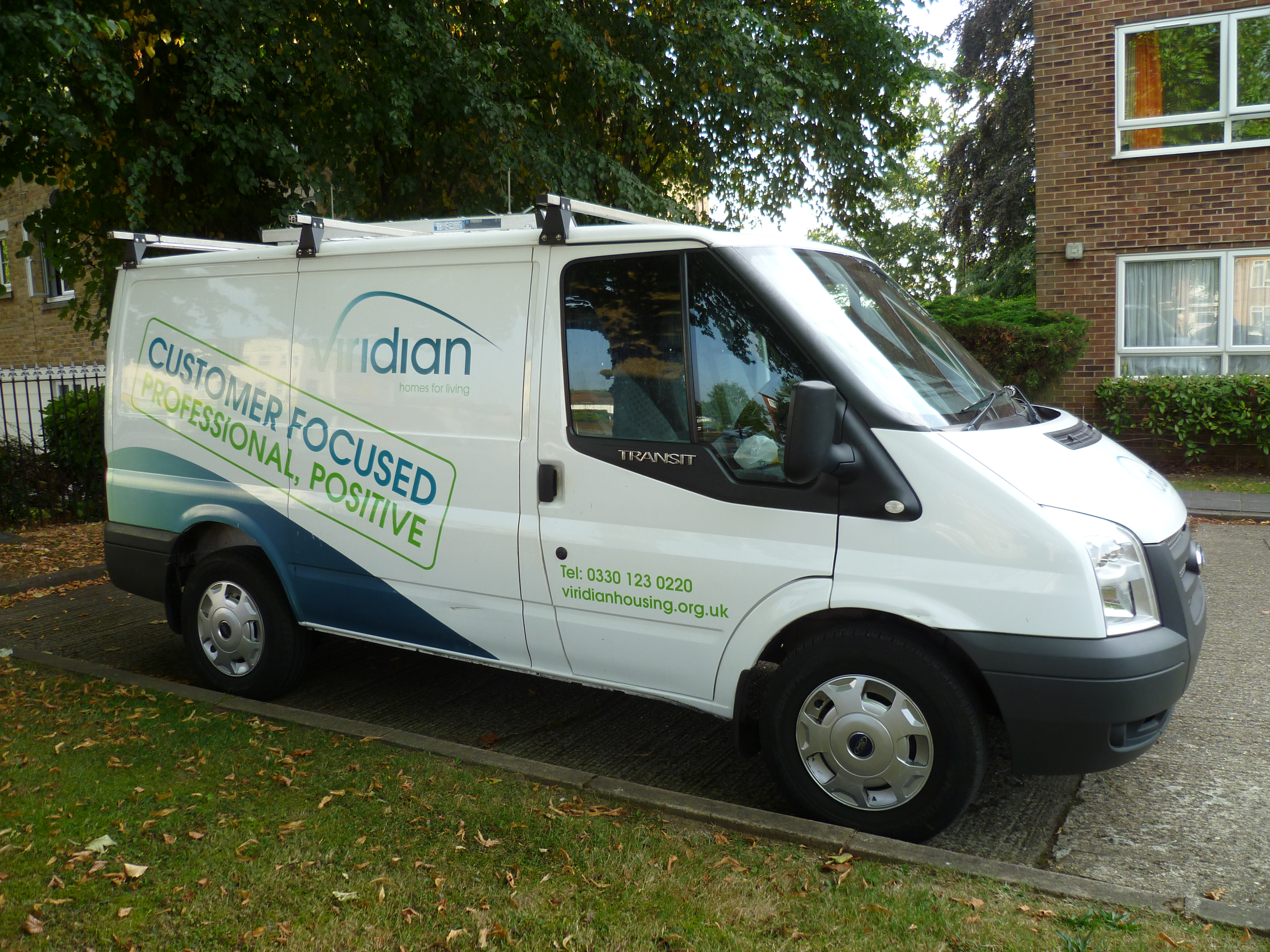 Viridian Housing vehicle, London